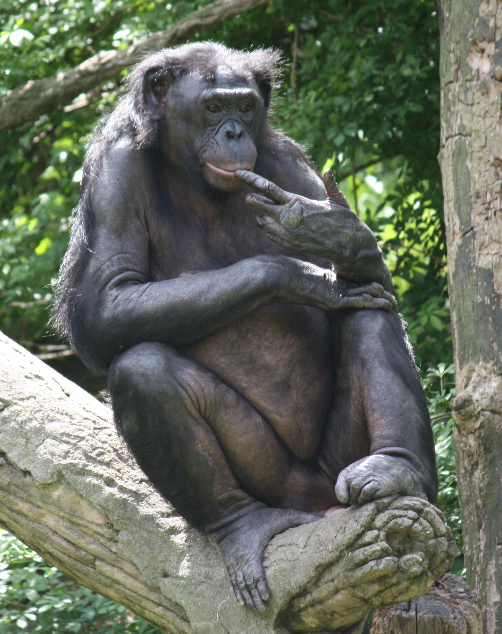 Bonobo Pan paniscus at Cincinnati Zoo